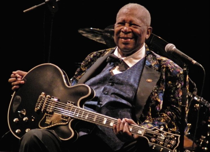 500px provided description: Bb King